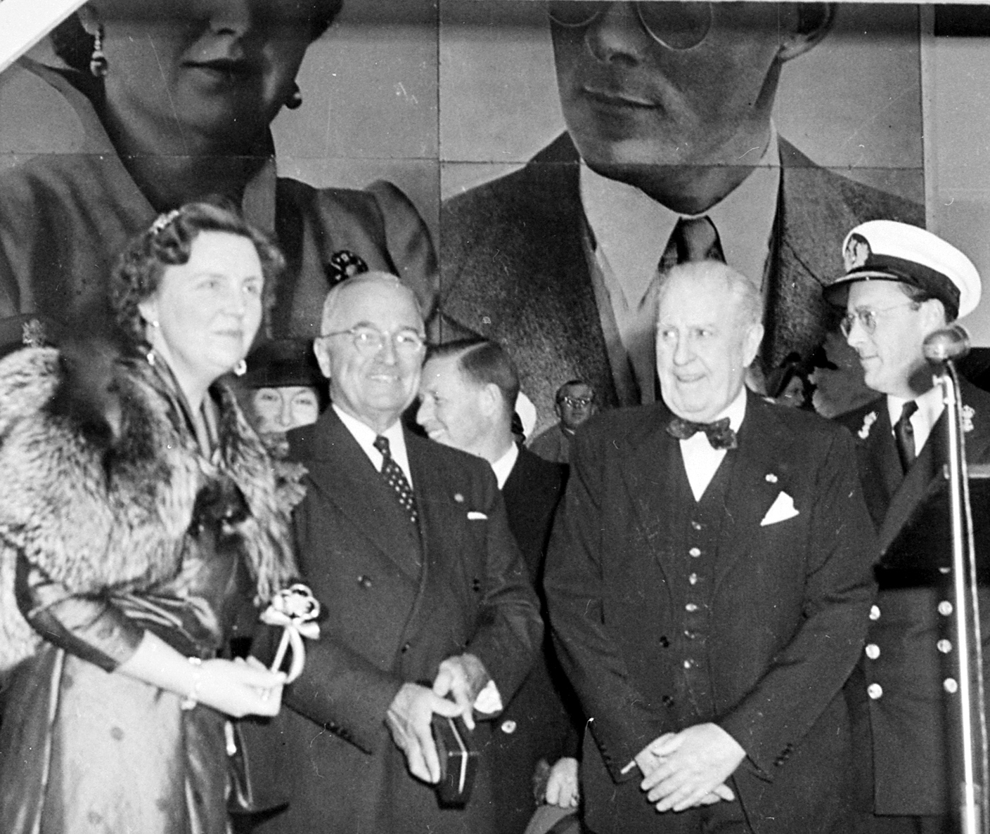 President Truman and Queen Juliana of the Netherlands, with other dignitaries, during welcoming ceremonies for the Queen in Washington. (Note also background photographs)